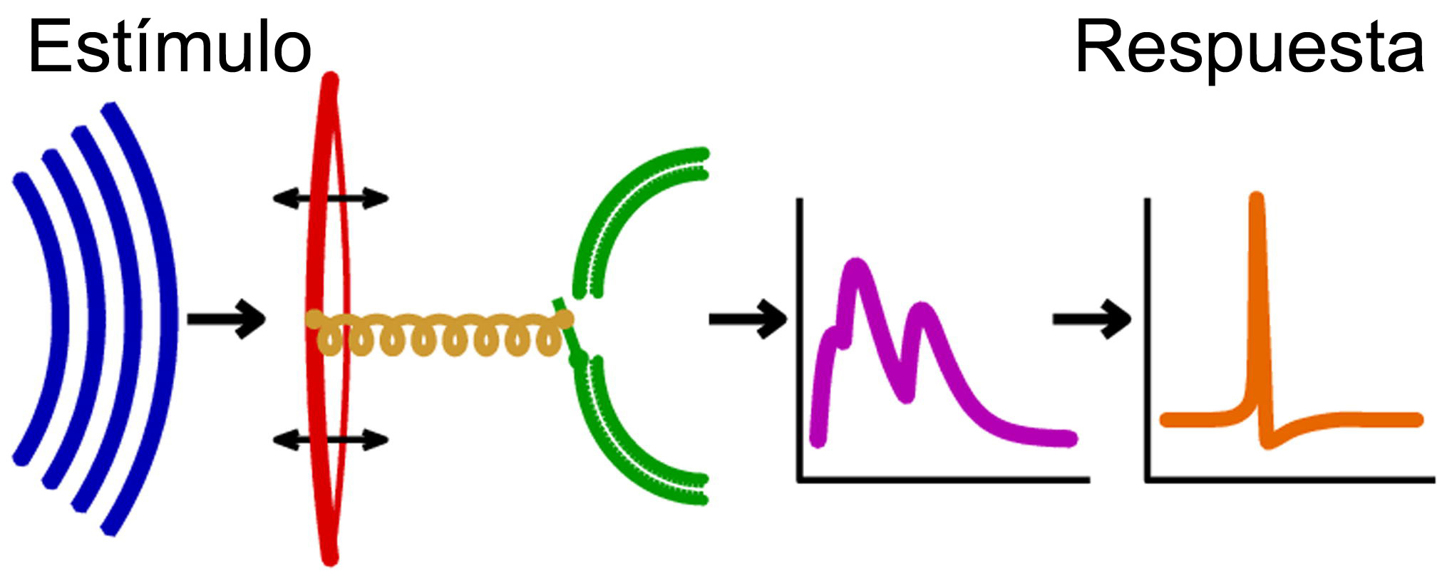 Spanish version of a schematic representation of auditory signaling.